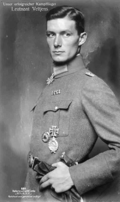 Lieutenant Josef Veltjens on Sanke postcard #681.